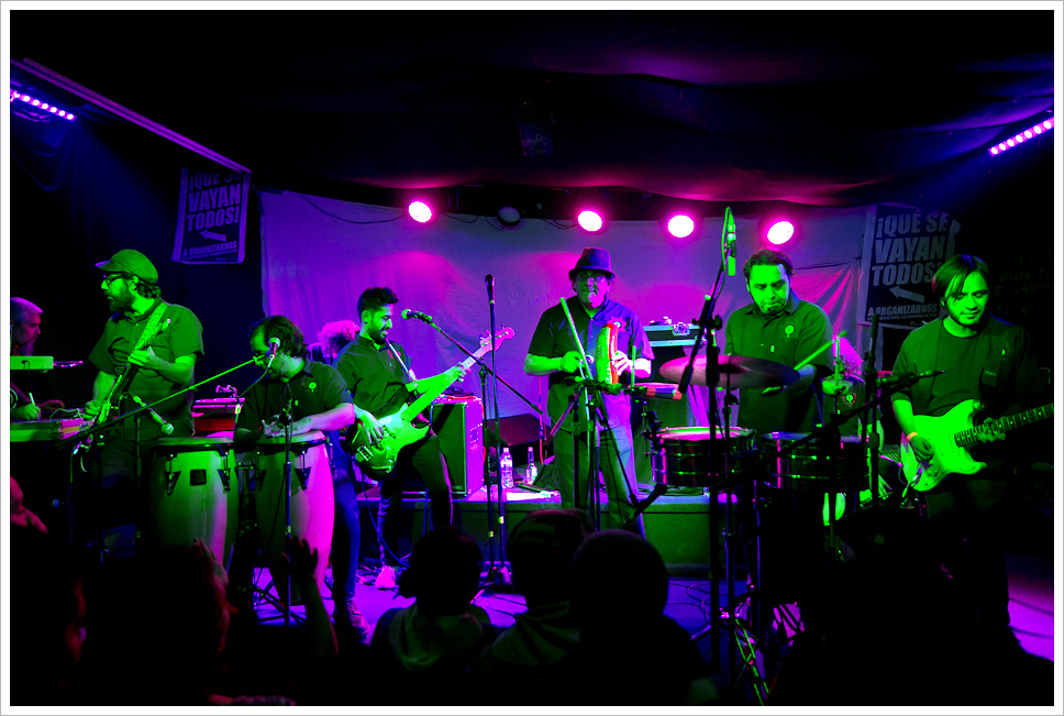 27.11.2014 Mexico City Full Gallery